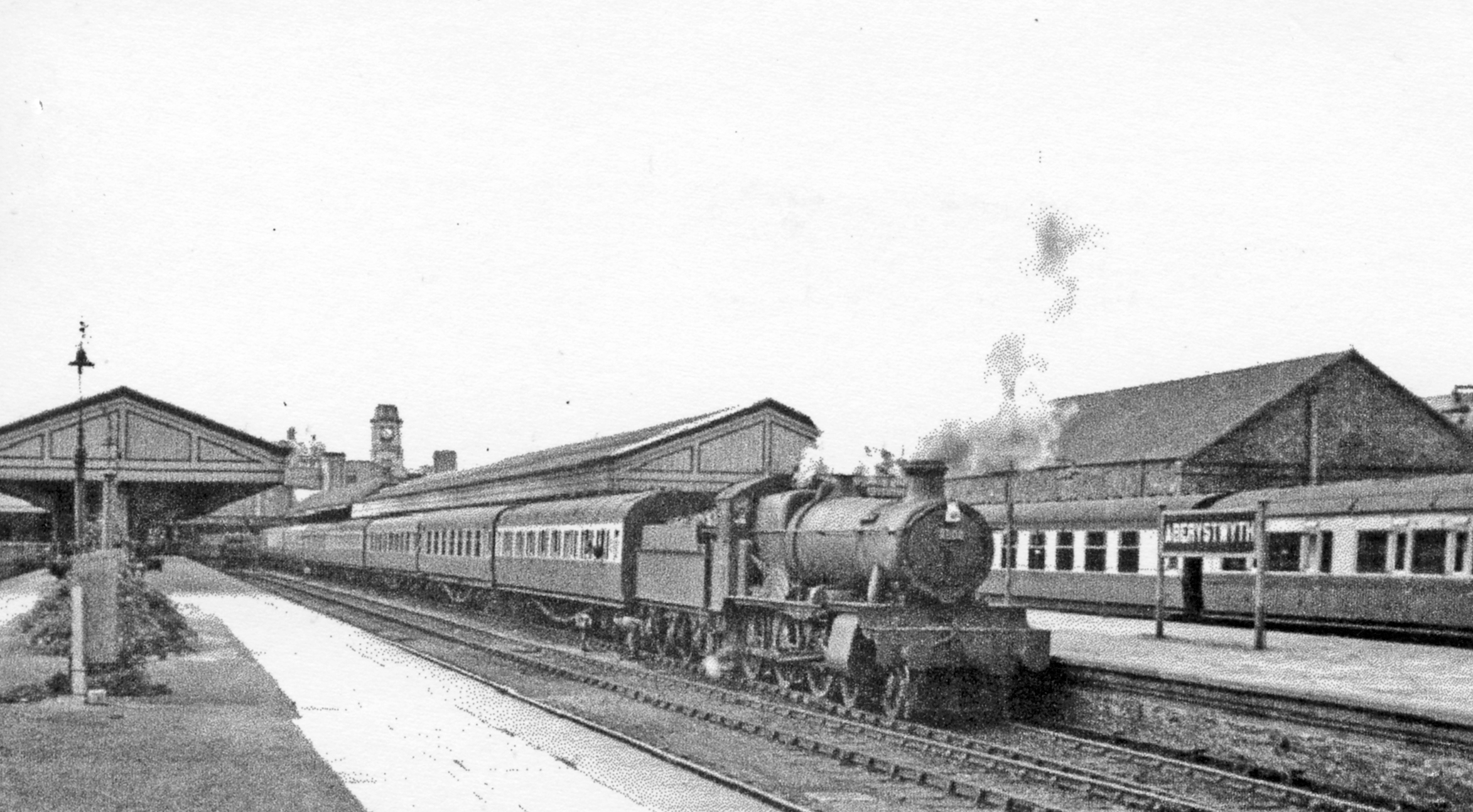 Aberystwyth station, with a 'Manor' 4-6-0 on train for Whitchurch, 1952View towards the buffers of this ex-Cambrian Railway and ex-GWR terminus of lines from Whitchurch via Oswestry and Welshpool, and Pwllheli, and Machynlleth, also from Carmarthen. The 18.00 to Whitchurch is headed by Collett 'Manor' class 4-6-0 No. 7808 'Cookham Manor' (built 3/38, withdrawn 12/65 and preserved - at Didcot Railway Centre).